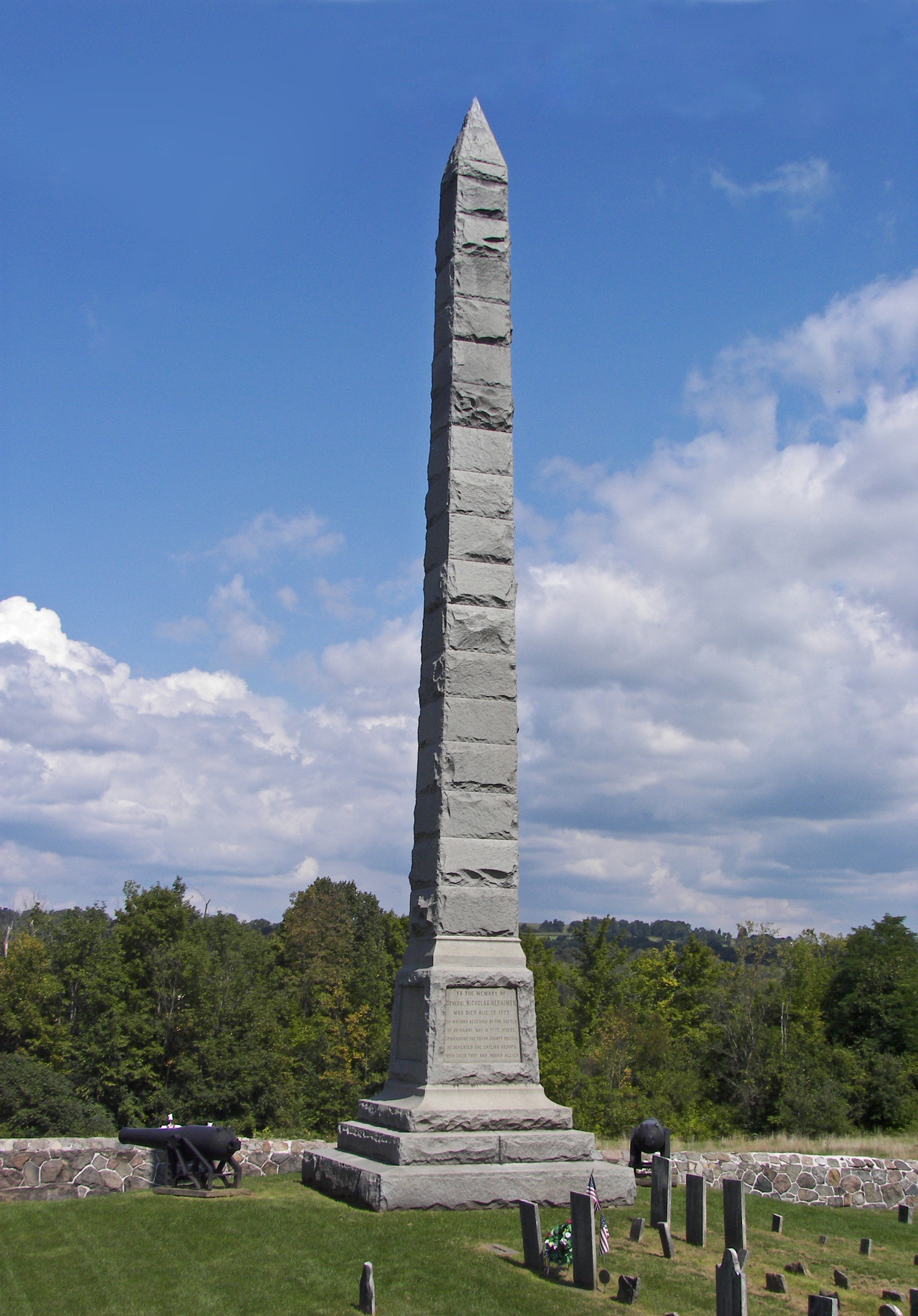 Herkimer memorial obelisk at Herkimer Home State Historic Site in Danube, Herkimer County, New York.